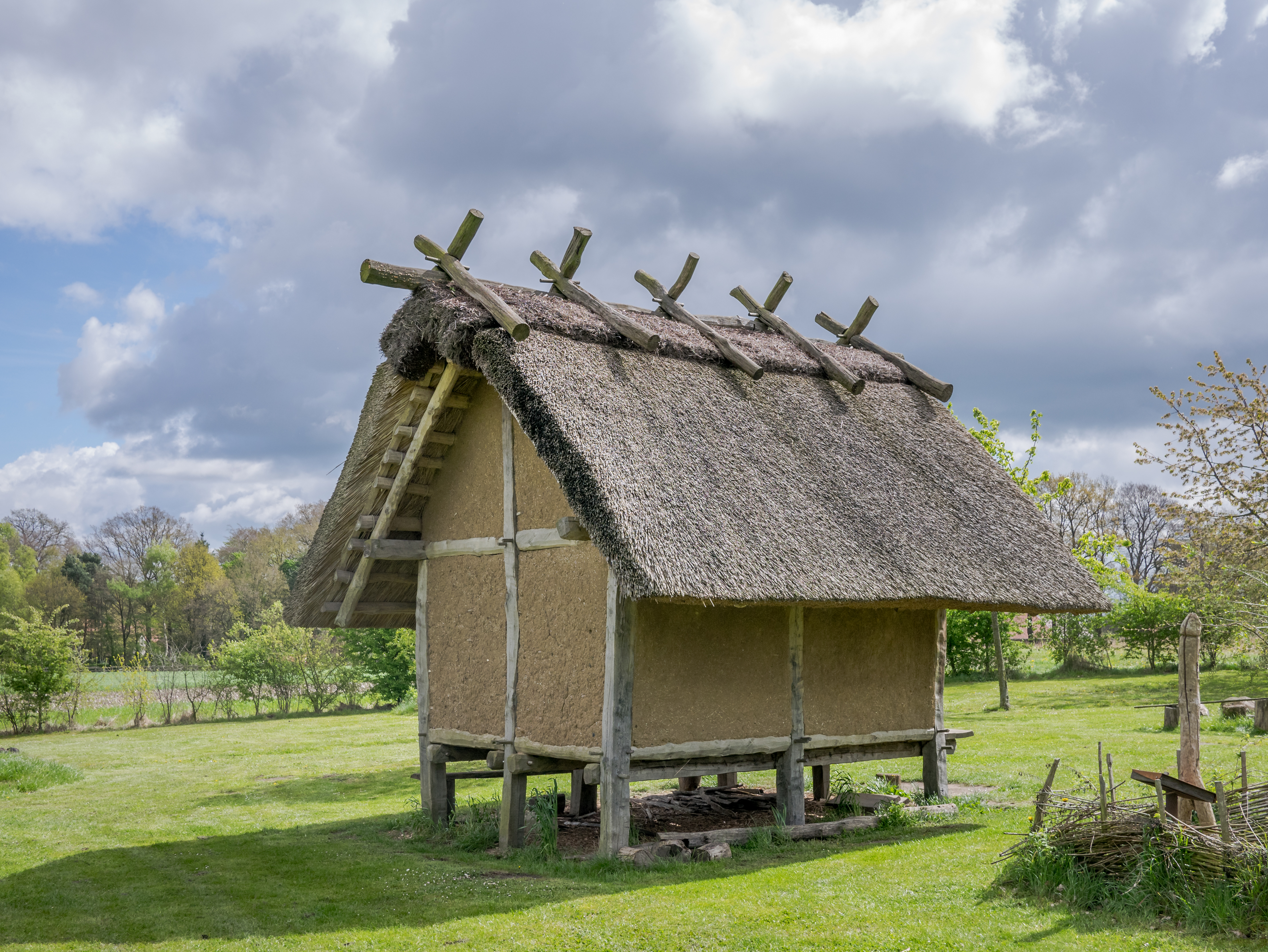 Granary at the iron age building in Darpvenne. Ostercappeln, Lower Saxony, Germany